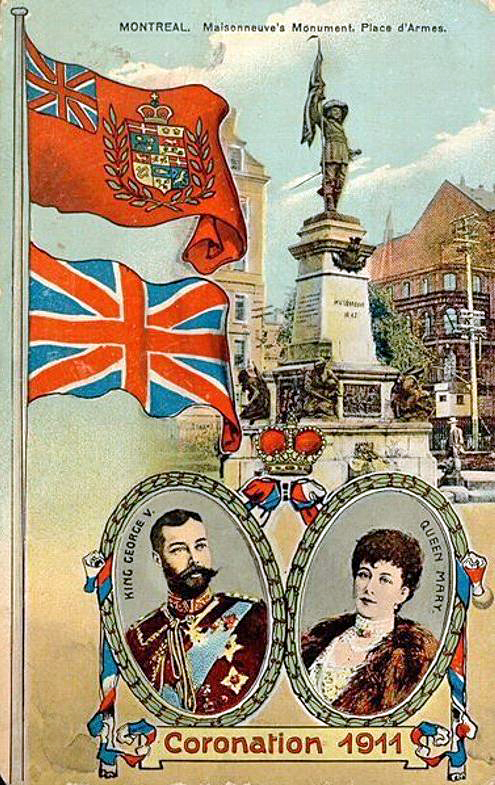 Postcard of the Maisonneuve Monument, located on Place d'Armes in Montreal, Quebec, Canada, also commemorating the 1911 coronation of King George V. A version of the Red Ensign of Canada and the Union Jack are also depicted on the card.